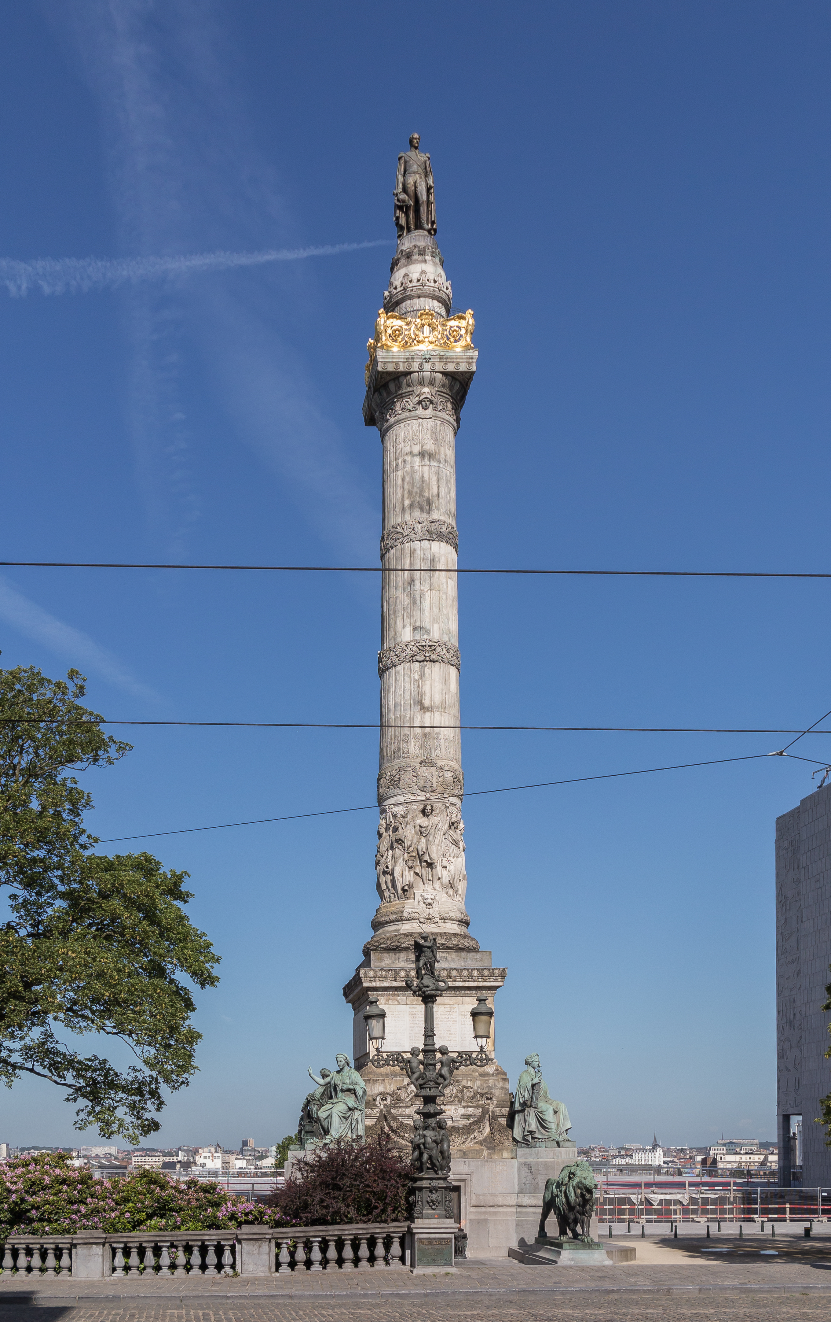 Brussels, monumental column: la Colonne du Congrès